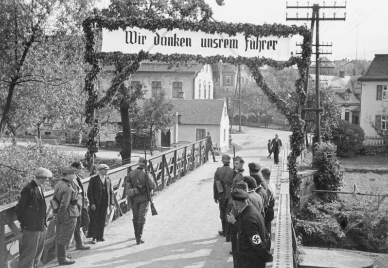 Occupation of the Sudetenland, with German and Czech border guards standing on the bridge which forms the new border. A sign above says (in German) "We thank our Fuehrer" (Adolf Hitler).